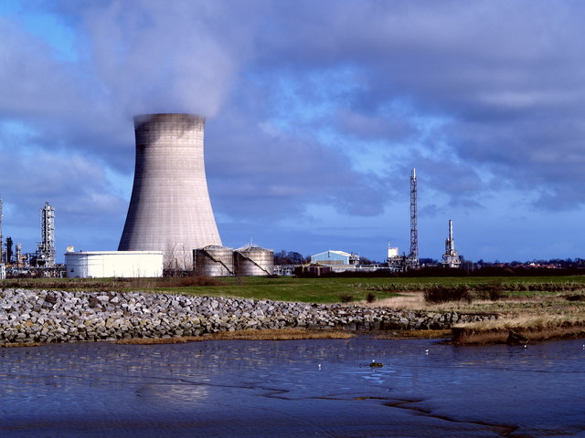 Chemical Works from Paull Haven,, Salt End in the East Riding of Yorkshire, England.